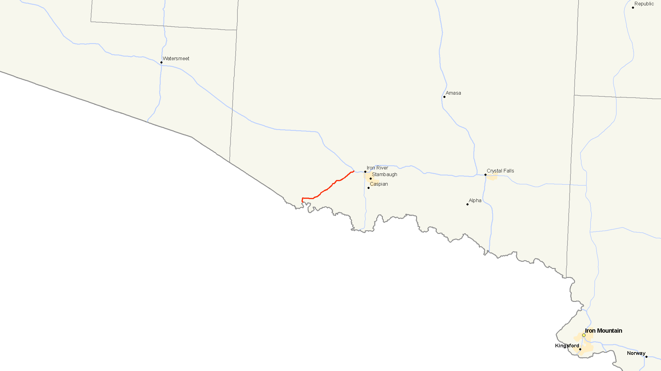 Map of M-73